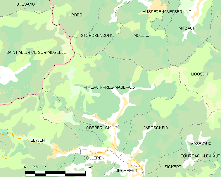 Map of French municipality